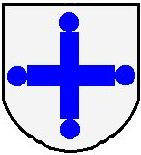 An heraldic cross.